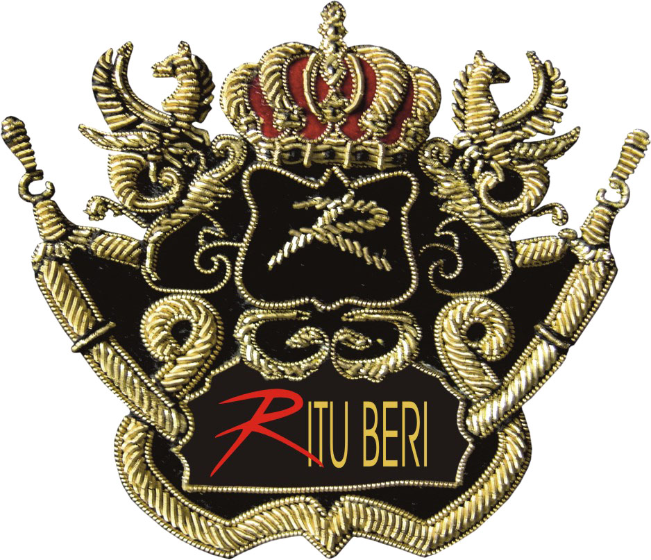 Ritu Beri crest